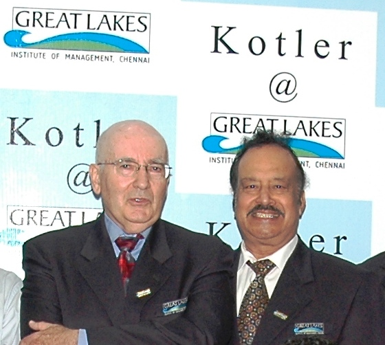 Dr. Philip Kotler with Dr. Bala V. Balachandran at Great Lakes Institute of Management